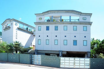 China Graduate School of Theology Dorset Campus